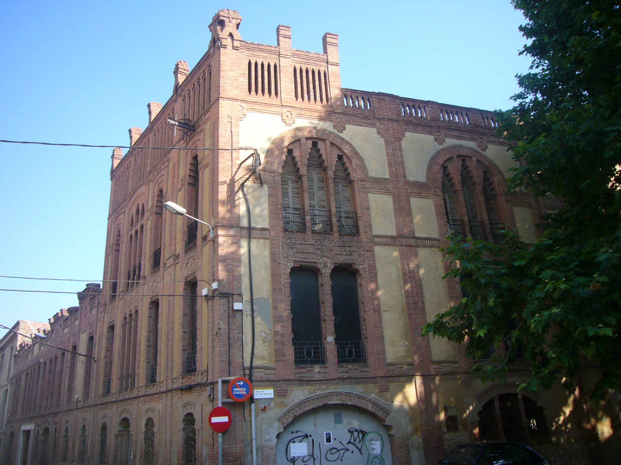 Tanning factory "Cal Sabaté"